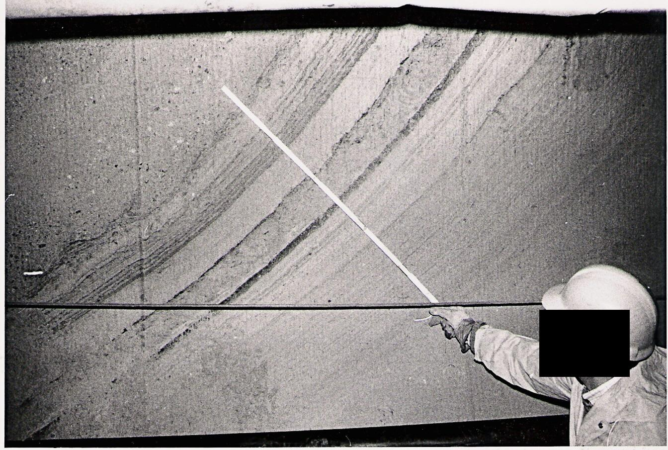 Typical lithofacies of Gonfolite Group, uppermost Como Conglomerate to Val Grande Sandstone transition (Latest Oligocene - Early Miocene, northern Lombardy, Italy). Parallel-laminated medium-coarse grained sandstone beds, thin mudstone layers and micro-conglomerate (upper part of the photo) with erosional base.